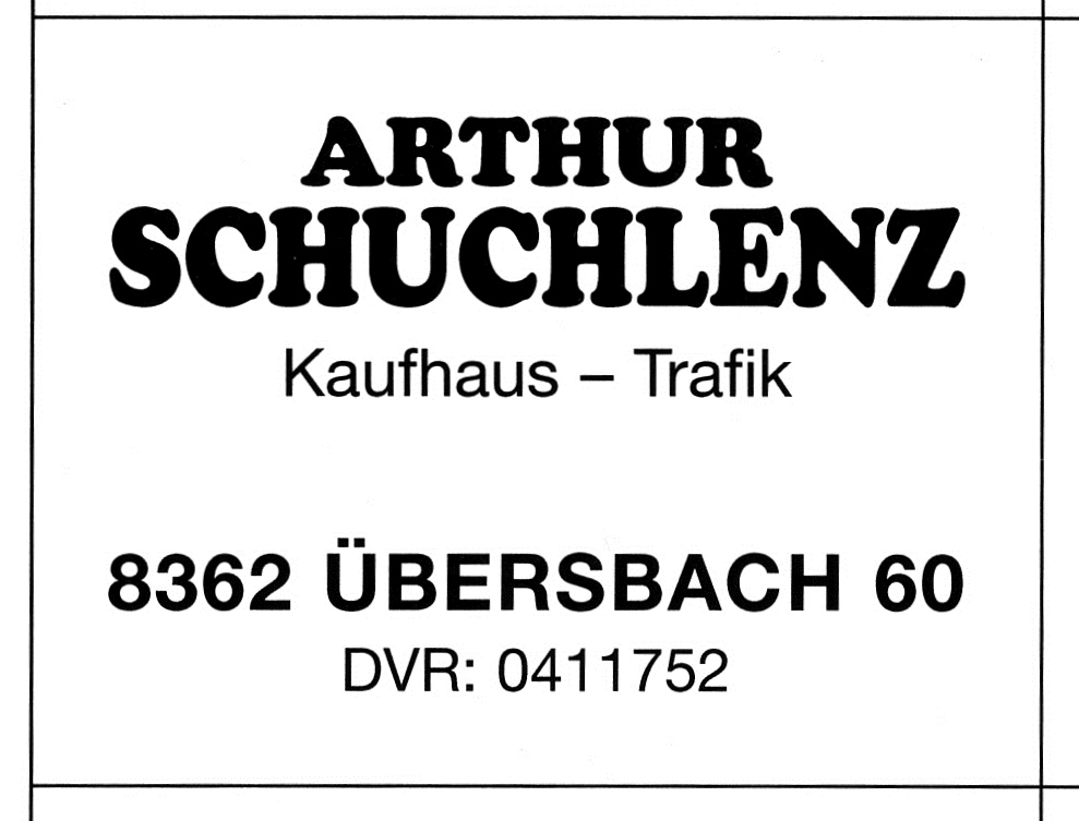 DVR-Number